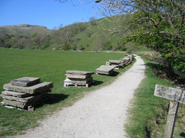 Footpath to Janet's Foss and Yorkstone Slabs This section of the path to Janet's Foss is between Weet Close Bridge and Mantley Field Laith. The sign requests that walkers keep to 'The Riverside', and to encourage that yorkstone slabs are to be laid, which will sit more comfortably in the landscape than the existing crushed stone path.